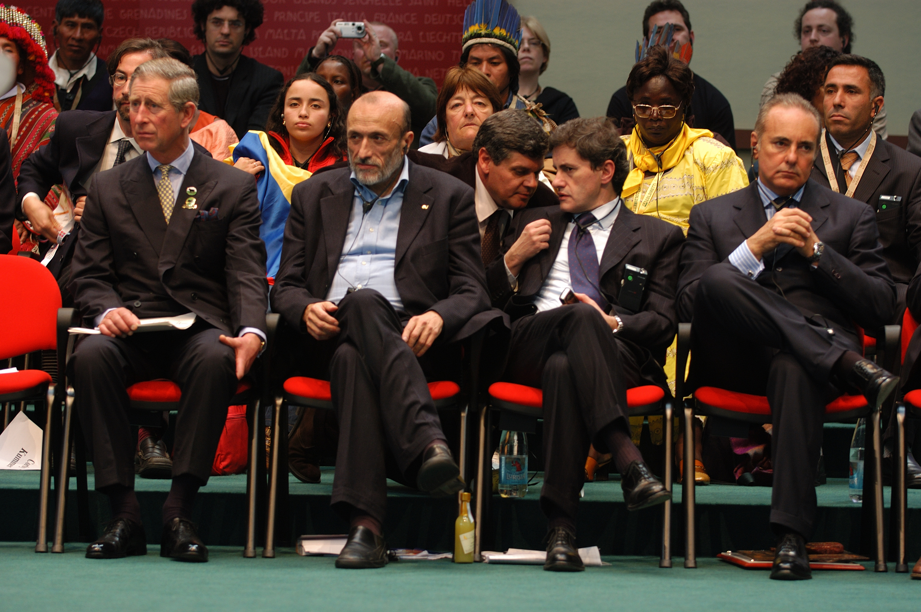 Prince Charles (left) next to Slow Food founder Carlo Petrini at the first edition of Terra Madre in 2004. Photo by Andrea Peroli.